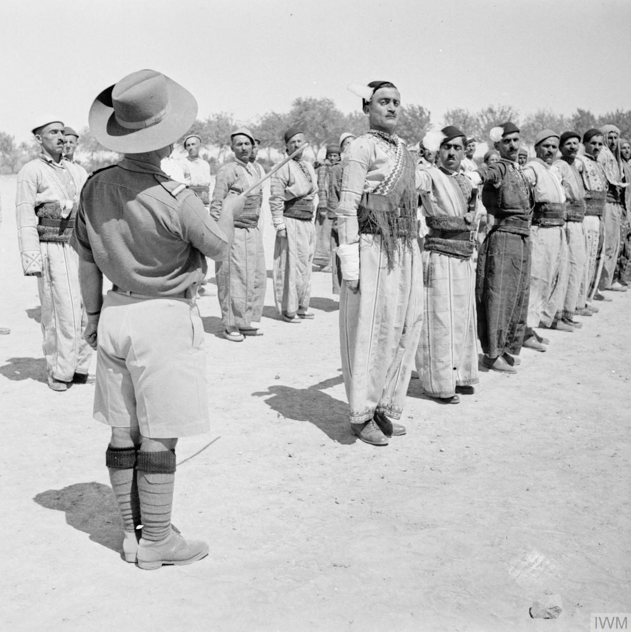 Iraq Levies in Training at Habbaniya Recruits in the Iraq Levies are shown here drilling on the square, still wearing their tribal dress.